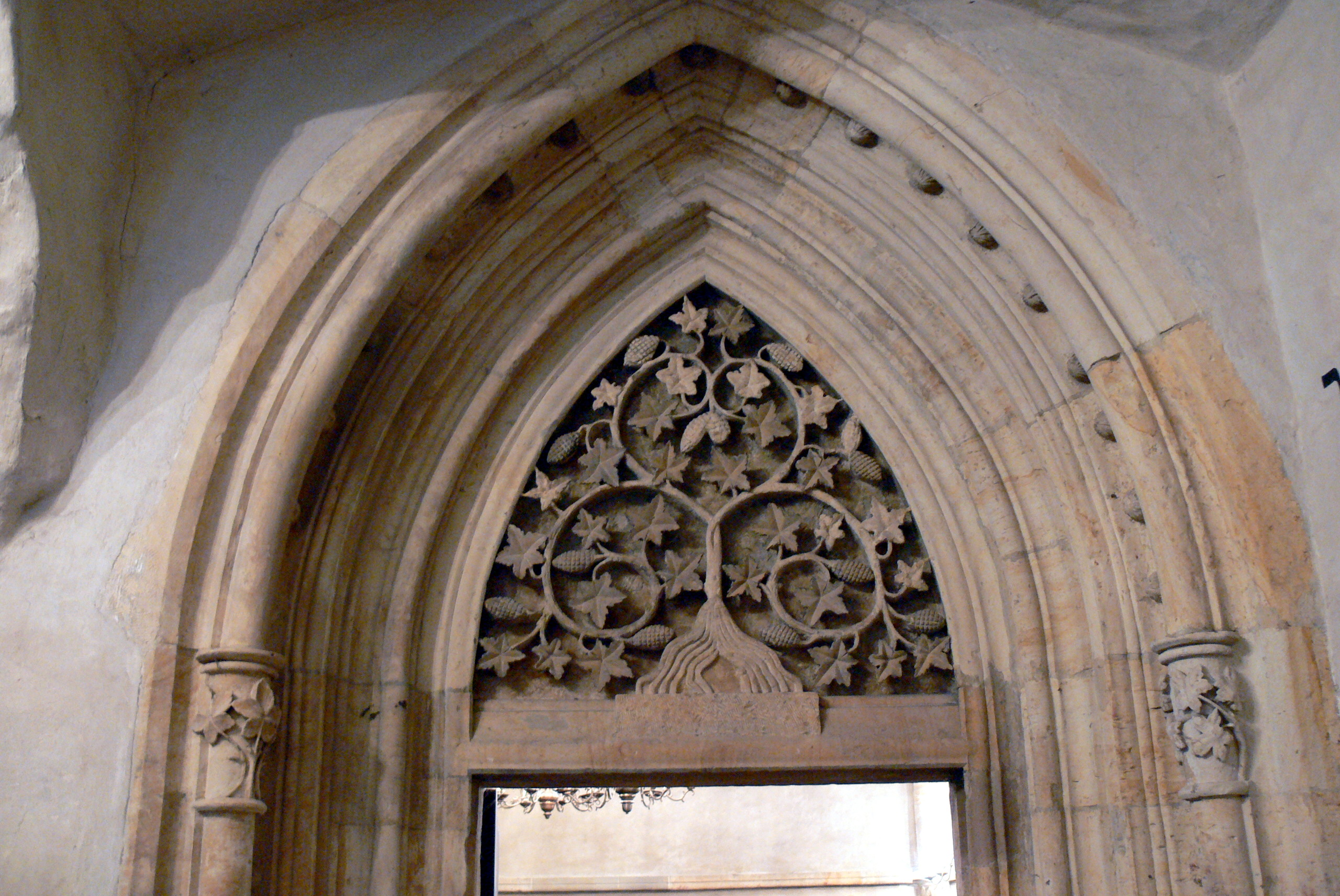 Josefov ( Prague ). Old New Synagogue: Gothic portal showing the tree of life in the tympanum.